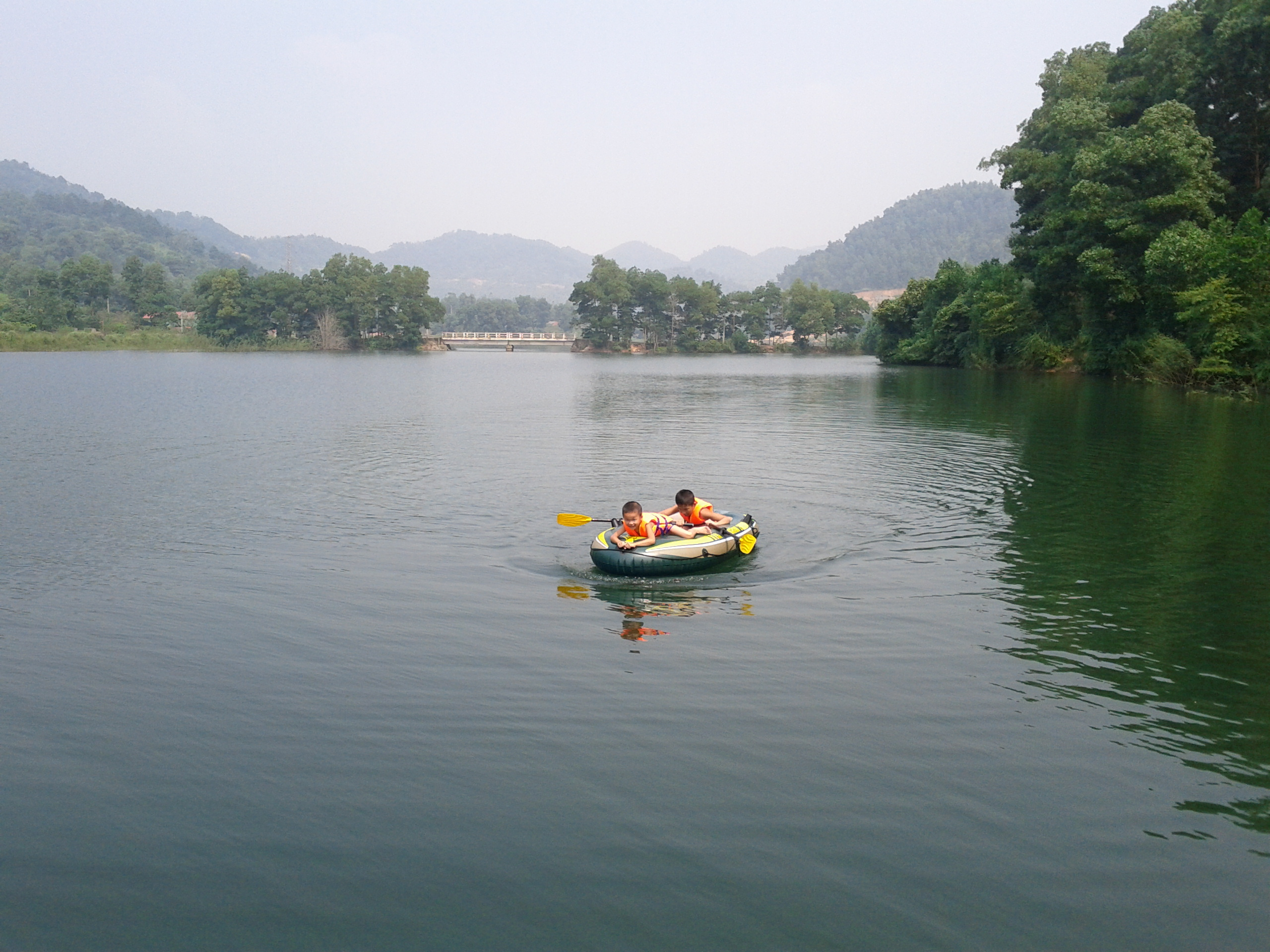 Playing boat